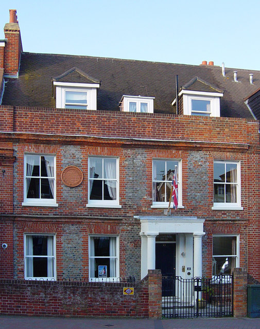 Birthplace of Thomas Arnold, Headmaster of Rugby School 1828-1842 The round plaque on the wall of this house reads: THOMAS ARNOLD D.D. HEAD MASTER OF RUGBY SCHOOL 1828 - 1842 WAS BORN IN THIS HOUSE 13th JUNE 1795 The house is situated on Birmingham Road, just opposite Cowes Police Station.